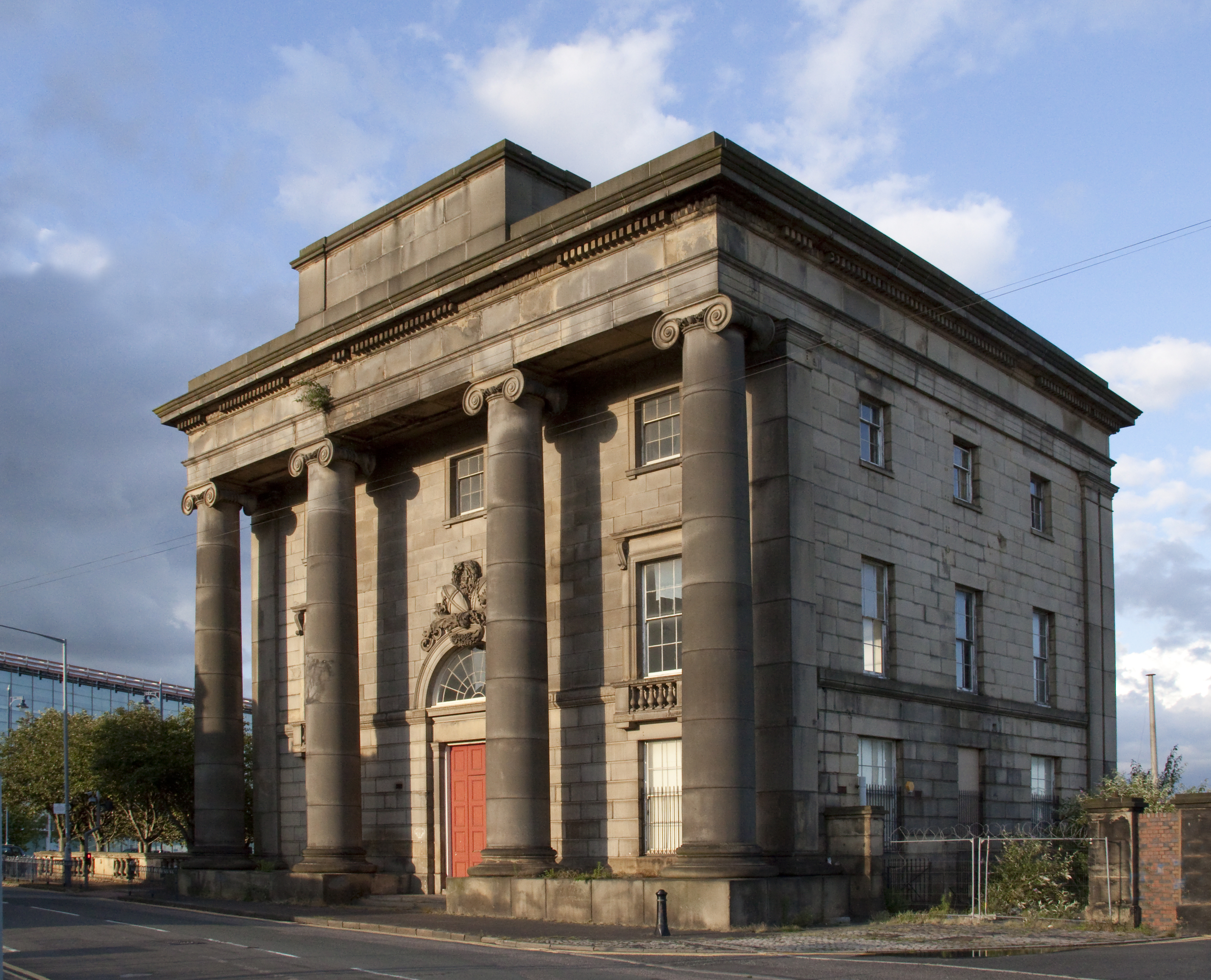 Curzon Street railway station, Birmingham, England was a railway station in the 19th century.